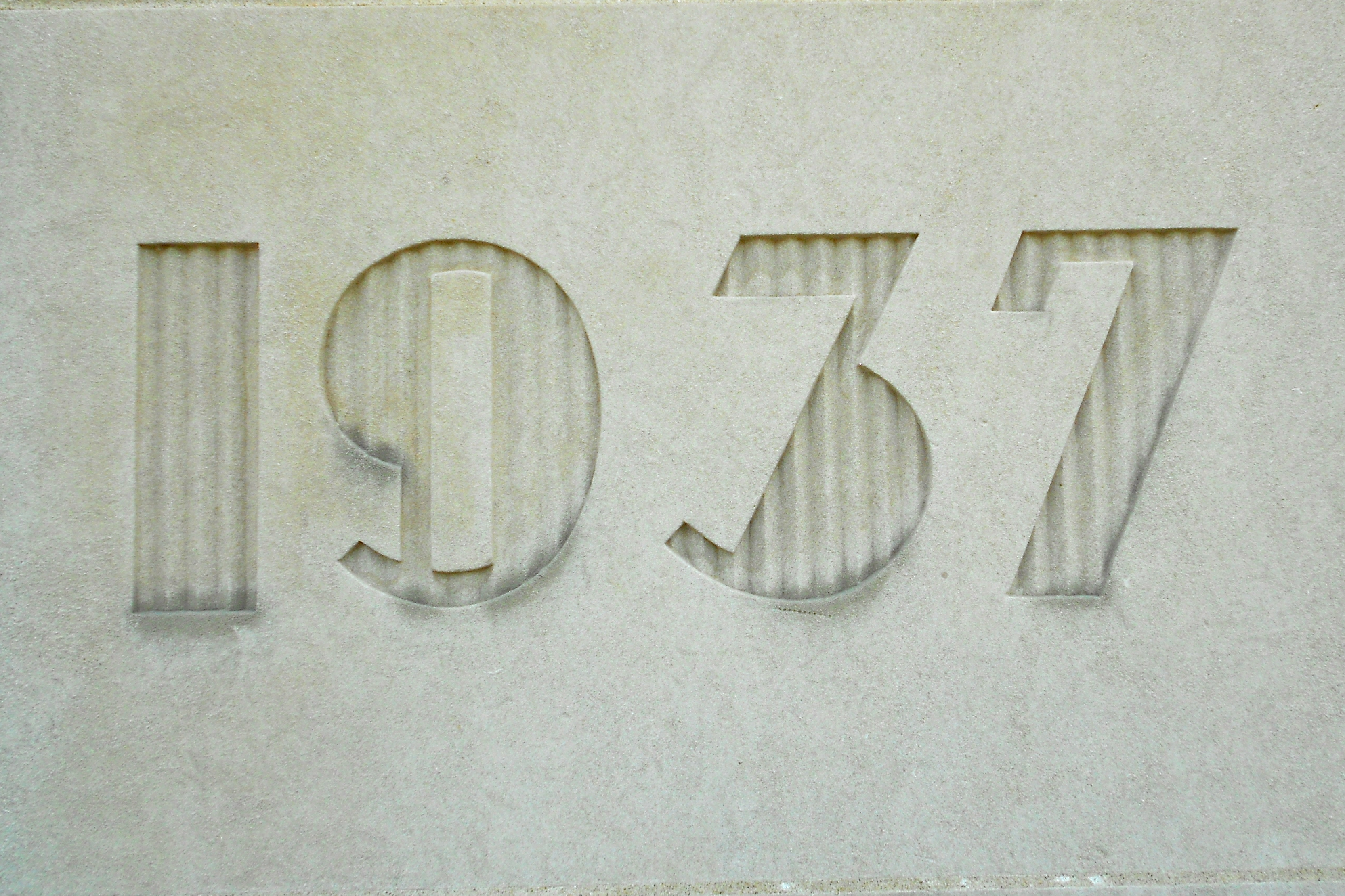 Date stone on the Hamburg Armory, which was listed on the NRHP on May 9, 1991. At North 5th Street, south of Interstate 78, Hamburg, Berks County, Pennsylvania.